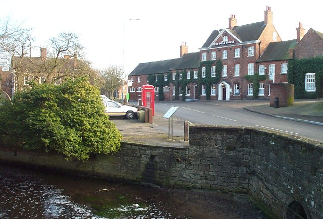 The Hop Pole Hotel. The Hop Pole hotel in Ollerton which got its name from the hops yards which were on the banks of the River Maun, which is seen in the foreground.